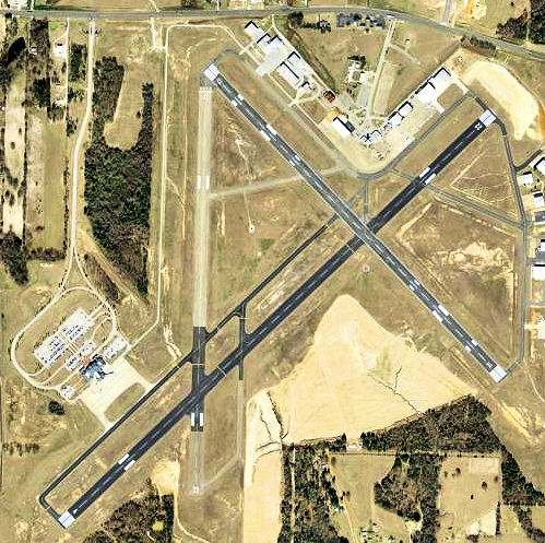 USGS digital orthophoto of Tyler Pounds Regional Airport in Texas